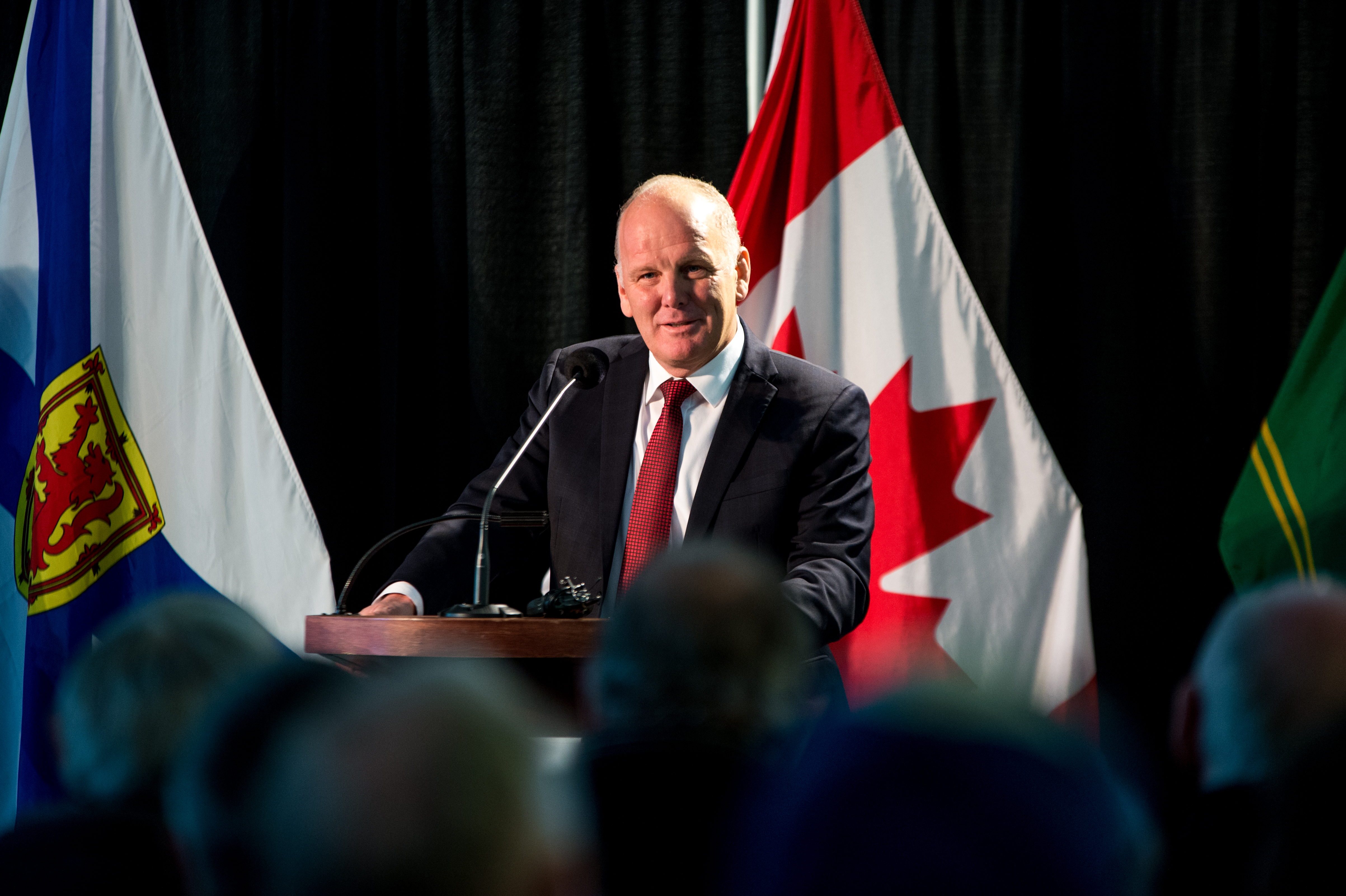 The Honourable Mark Eyking, P.C., M.P.